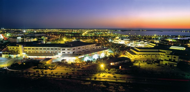 Chabahar port night view.